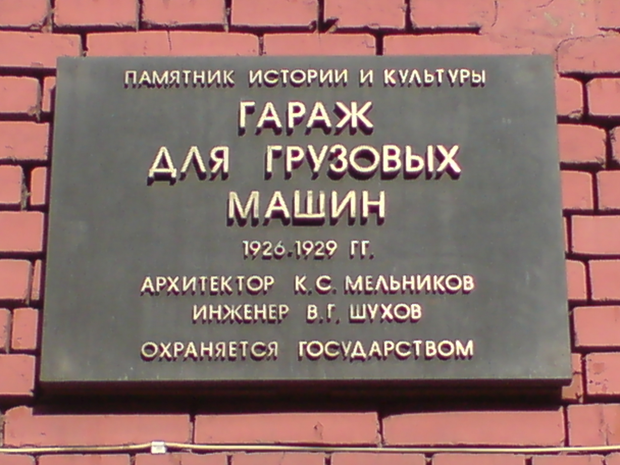 Plaque for Horseshoe Garage by Melnikov and Shukhov Novoryazanskaya 27, Moscow